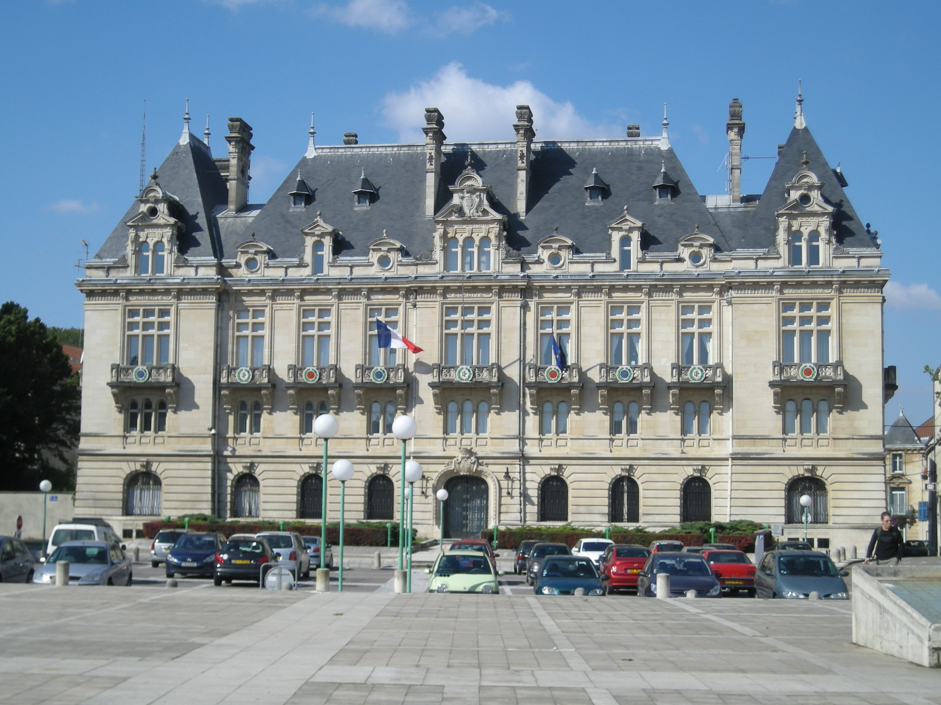 Bar-le-Duc : Préfecture of Meuse department